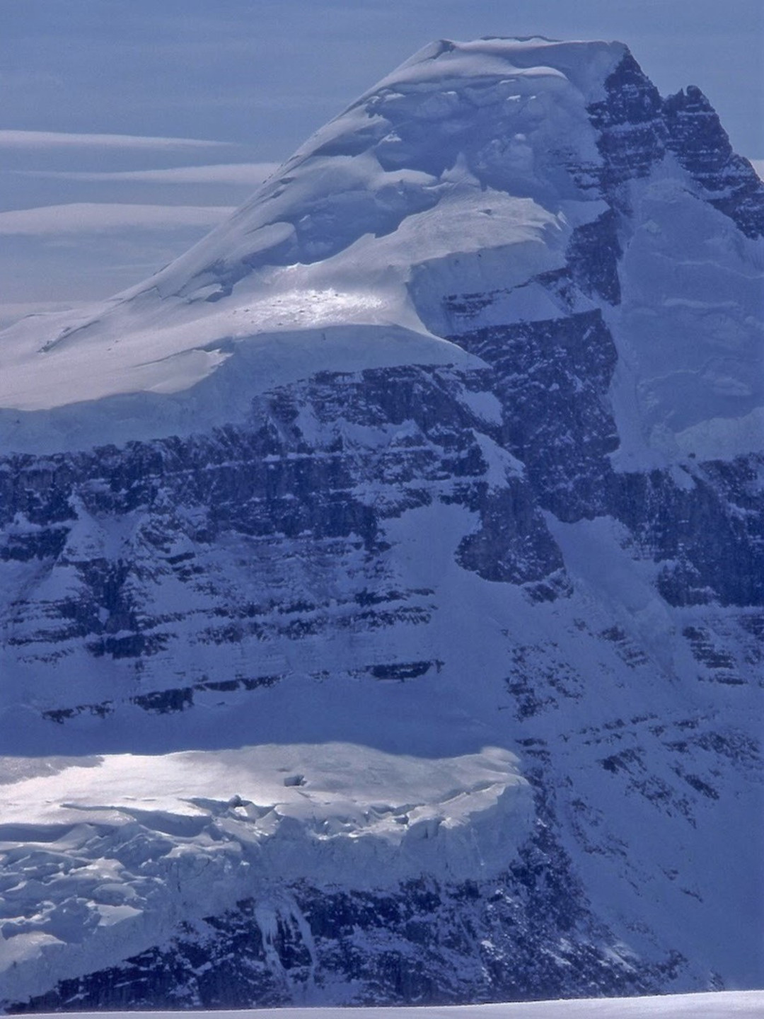 Mt. Columbia (vertical) from the Columbia Icefield from a bivy site for The Twins